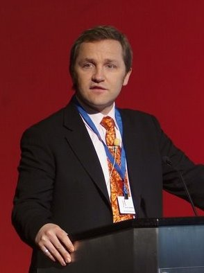 James Mark Dakin Purnell, a British politician and the current Secretary of State for Work and Pensions, attending the Progressive Governance Conference 2009 in Chile.